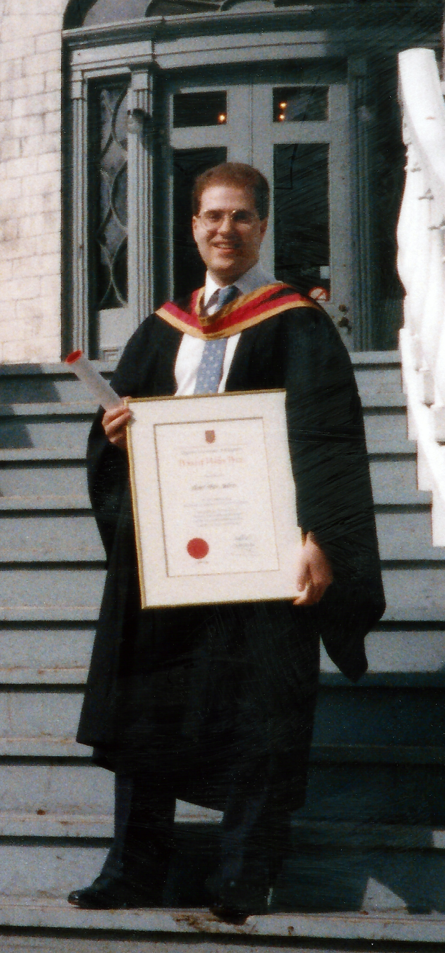 David Siderovski, outside Summerhill House, holding his B.Sc. (Honours) diploma and displaying the 1989 Prince of Wales Prize